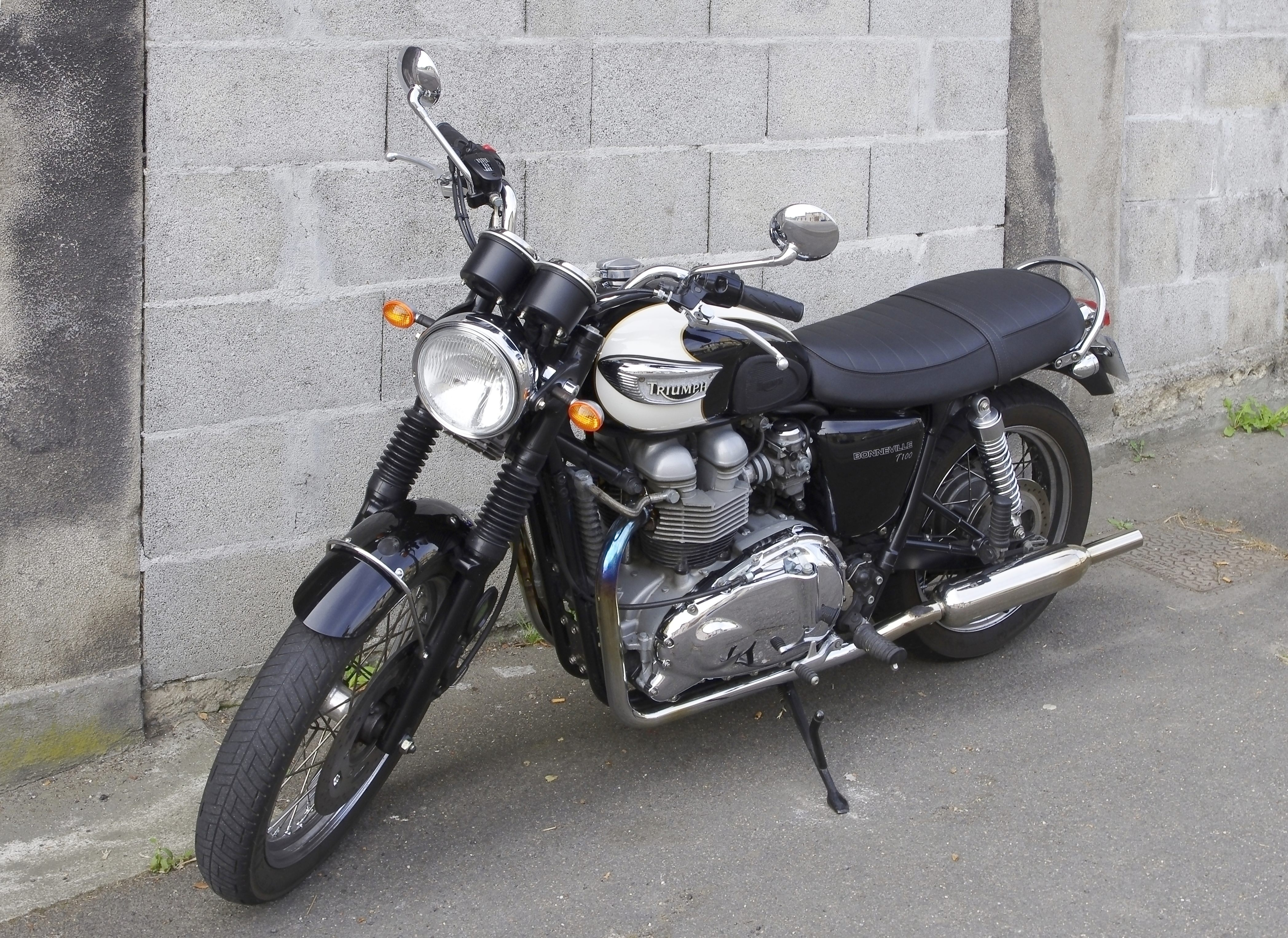 Triumph Bonneville T 100, Angoulême, France.